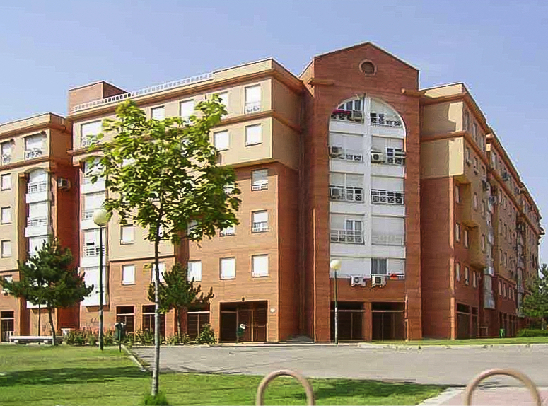 A building of Getafe Norte, Getafe, (Madrid), Spain Author: Miguel303xm Date: May 12th, 2005 Place: Getafe Norte, Getafe, Madrid, Spain